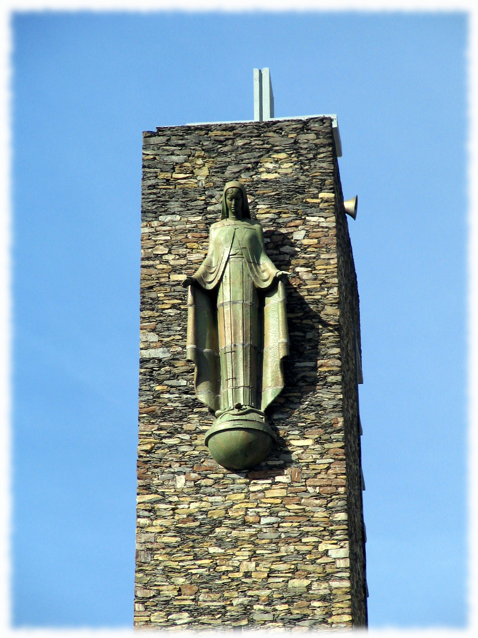 "La Purisima" church bell Tower. Work of Enrique de la Mora 1946.